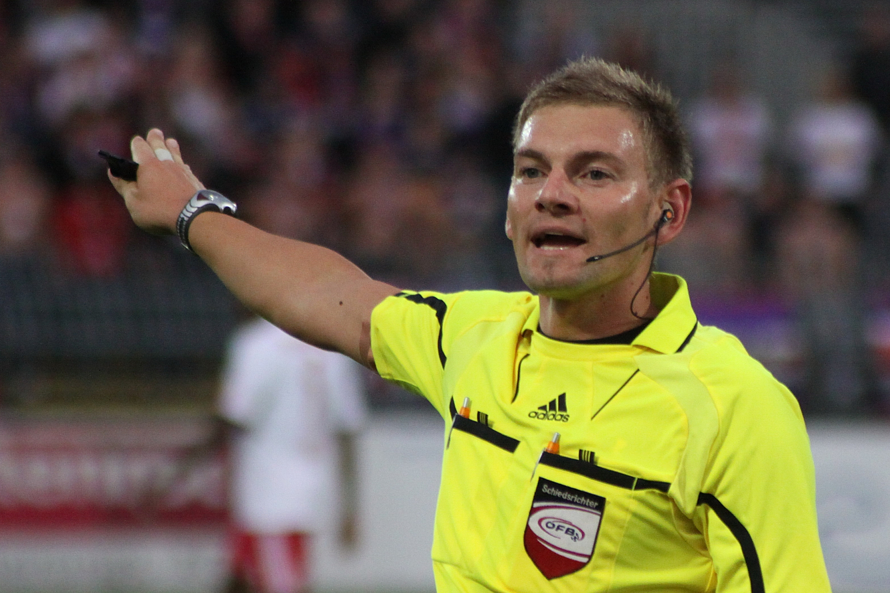 Manuel Schüttengruber, Referee of Austria